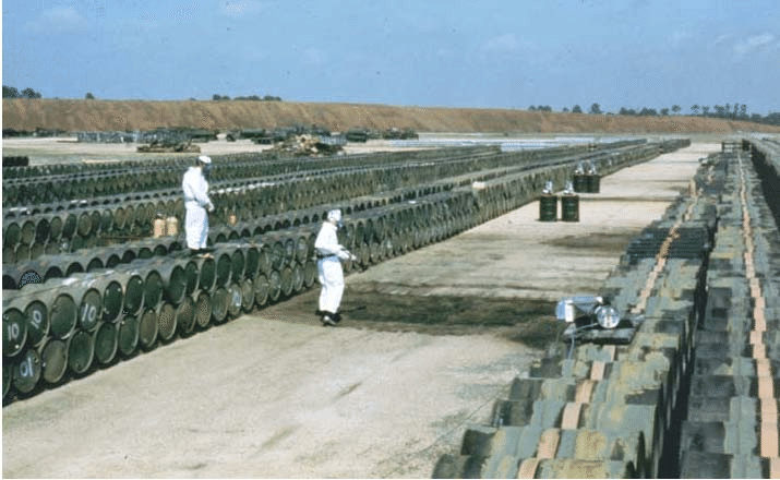 USAF Occupation and Environmental Health Laboratory Inspection-of-the-Agent-Orange-Inventory-at-NCBC-in- Gulfport,1975.